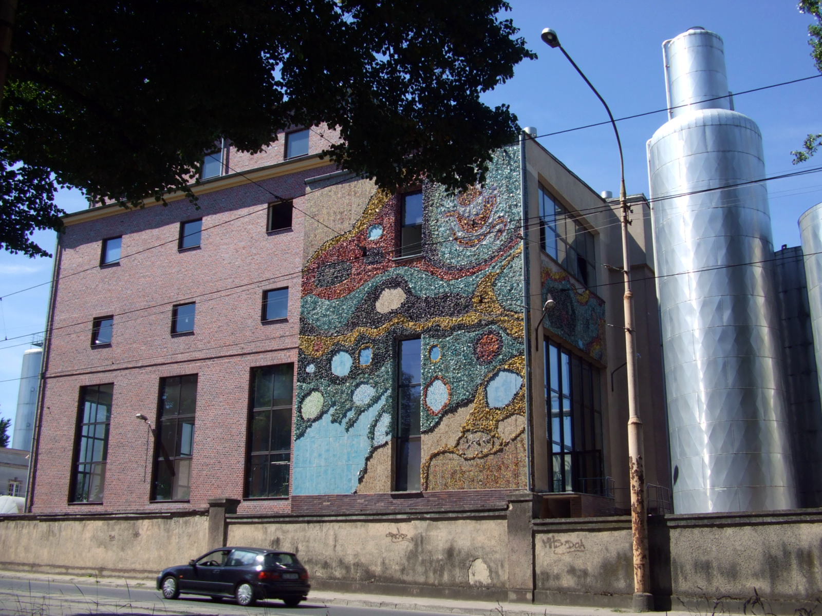 "Bosman" Brewery in Szczeicn